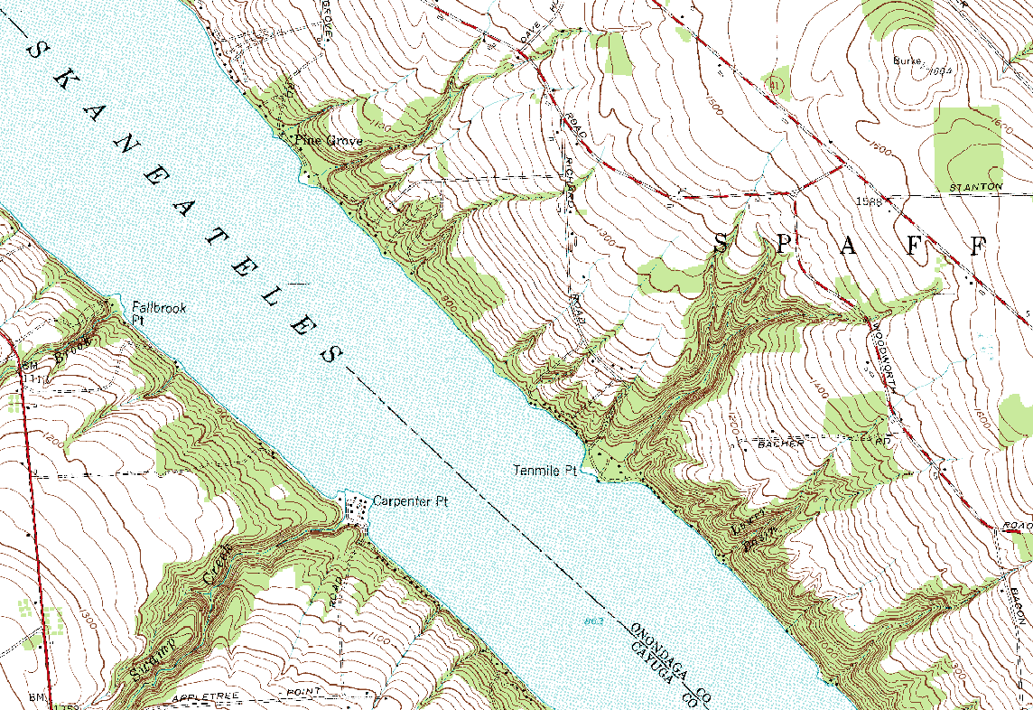 Topographic map of a portion of Lake-Skaneateles in New York State, USA, showing Tenmile Point and Carpenter Point.